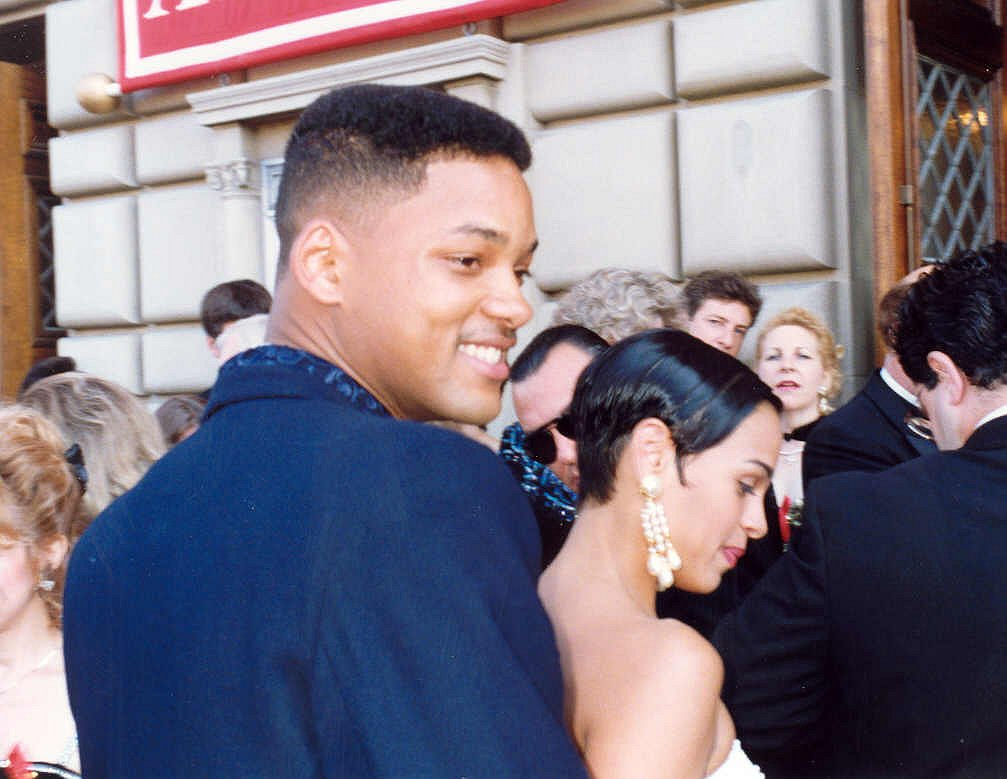 Actor/Musician Will Smith at 45th Emmy Awards